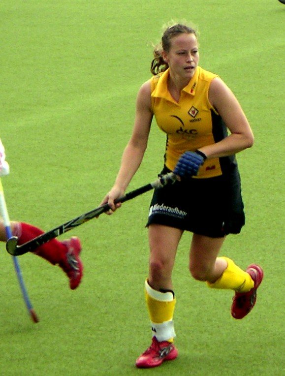 German field hockey national team player Anke Kühn